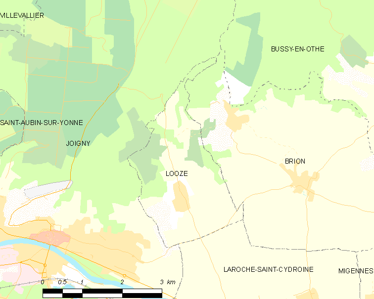 Map of French municipality Looze